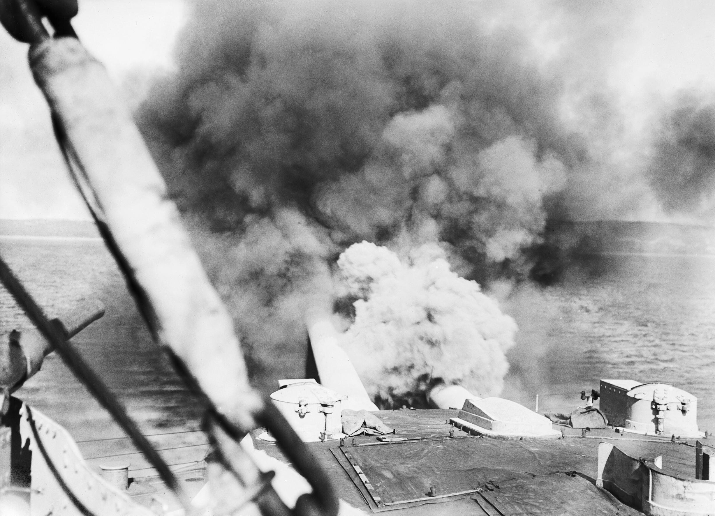 British battleship HMS Canopus fires a salvo from her 12-inch guns while bombarding Turkish forts defending the Dardanelles, March 1915, during the Battle of Gallipoli.